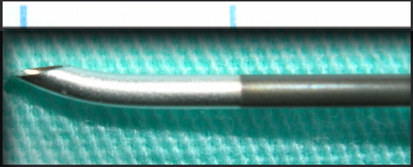 Tuohy needle detail.